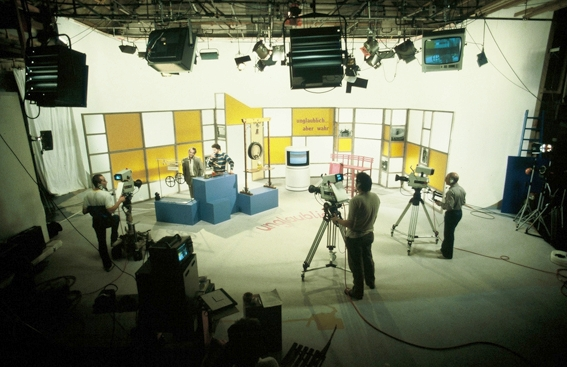 1982 TV-Show Condor Films